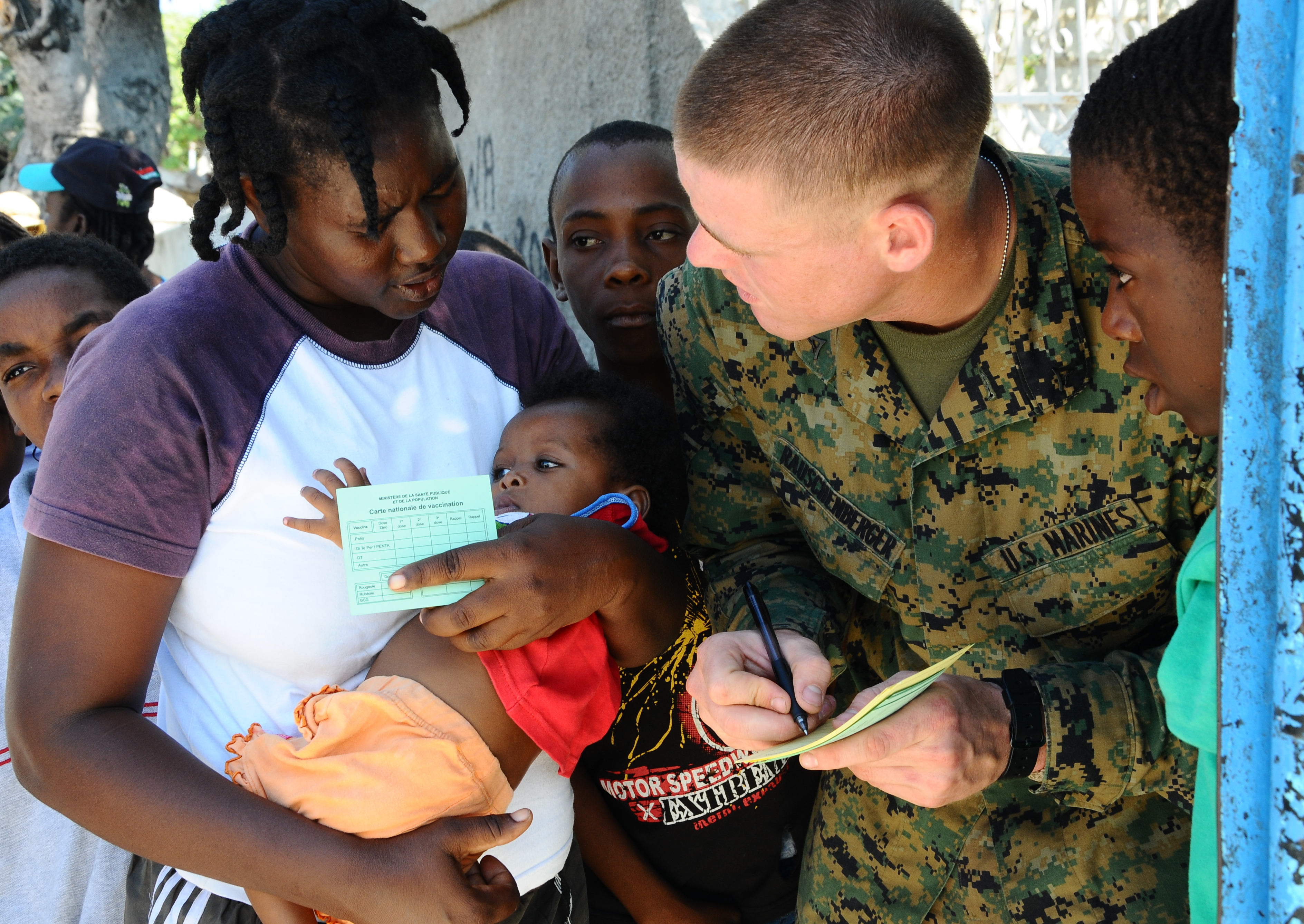 GRAND GOAVE, Haiti (Feb. 4, 2010) Lance Cpl. Benjamin Rauschenberg, a linguist from the 22nd Marine Expeditionary Unit (22nd MEU), helps a young Haitian woman fill out her immunization card at a clinic set up by the U.S. Public Health Service and Sailors, Marines and embarked staff assigned to the multi-purpose amphibious assault ship USS Bataan (LHD 5). Bataan is conducting humanitarian and disaster relief operations as part of Operation Unified Response after a 7.0 magnitude earthquake caused severe damage in and around Port-au-Prince, Haiti Jan. 12. (U.S. Navy photo by Mass Communication Specialist 1st Class Christina M. Shaw/Released)